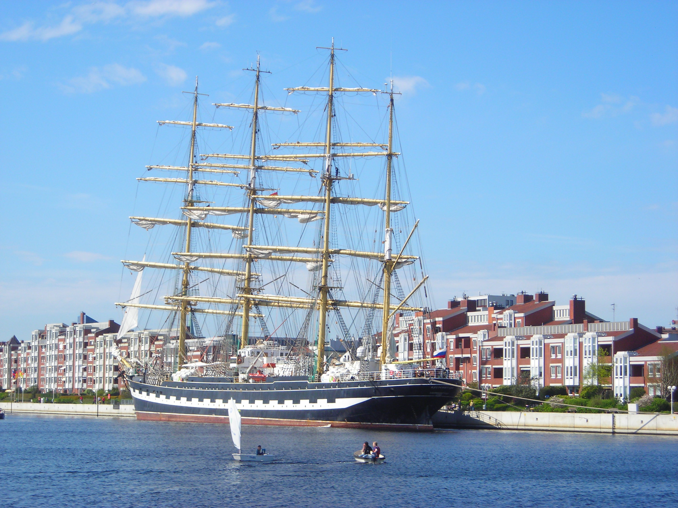 Kruzenshtern at the Bontekai in Wilhelmshaven, Germany